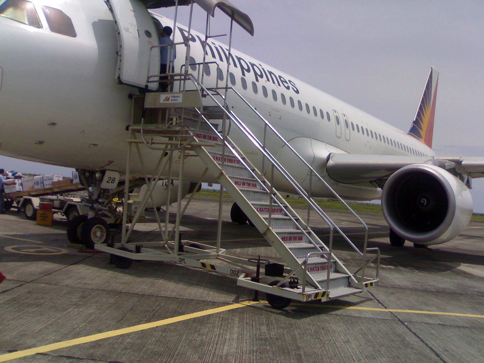 Dipolog Airport. Photo courtesy ARIEL C. NUNAG